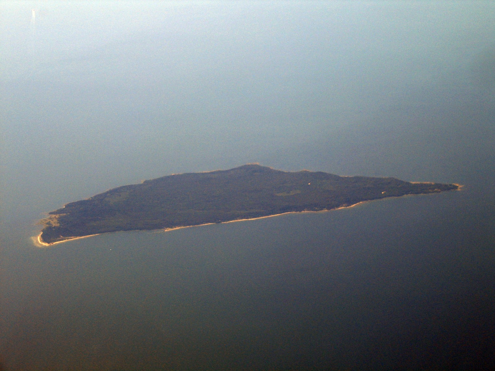 Aerial view of Naissaar, Estonia